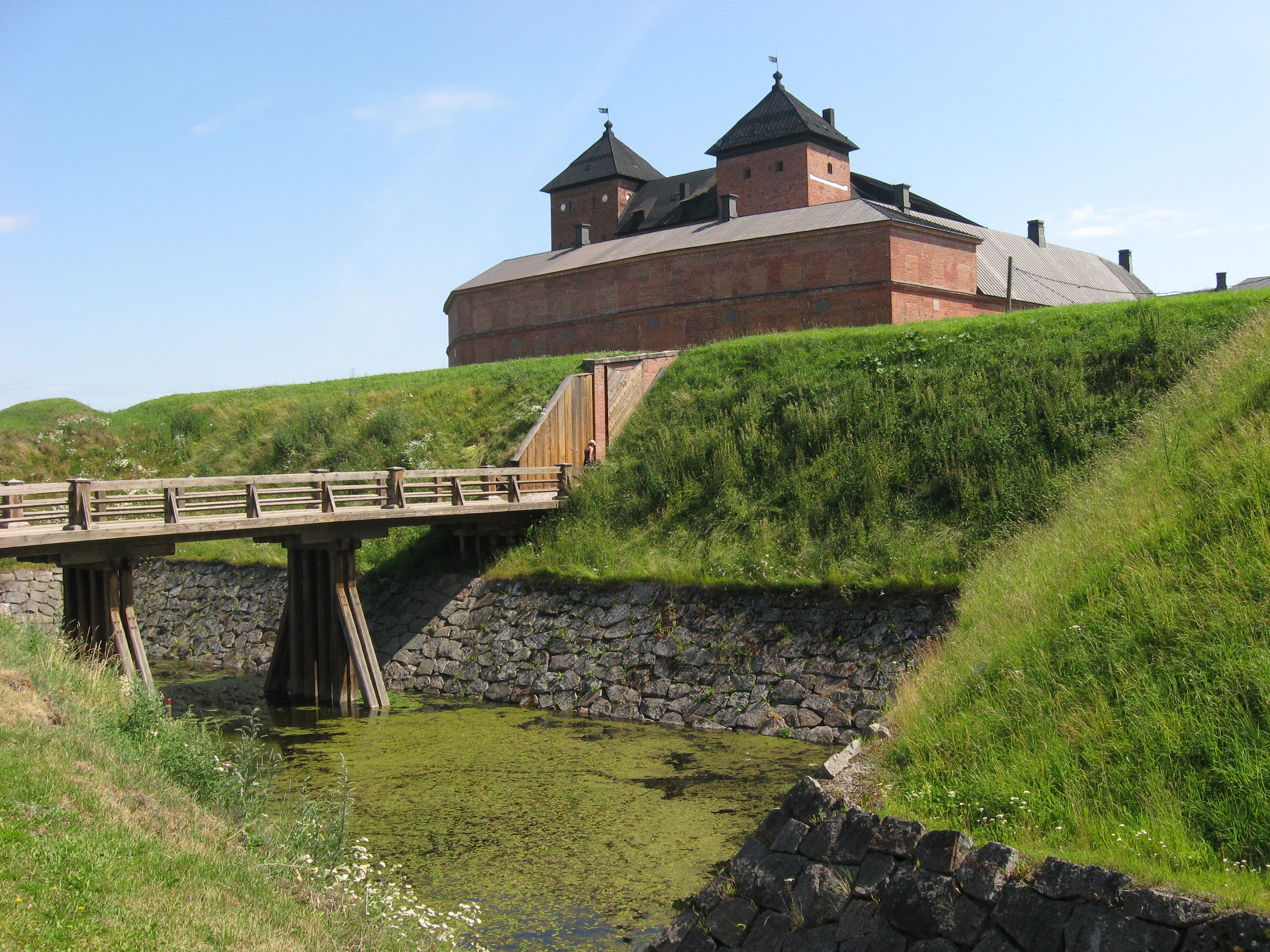 Castle of Häme on background with main entrance bridge over moat. Hämeenlinna, Finland.